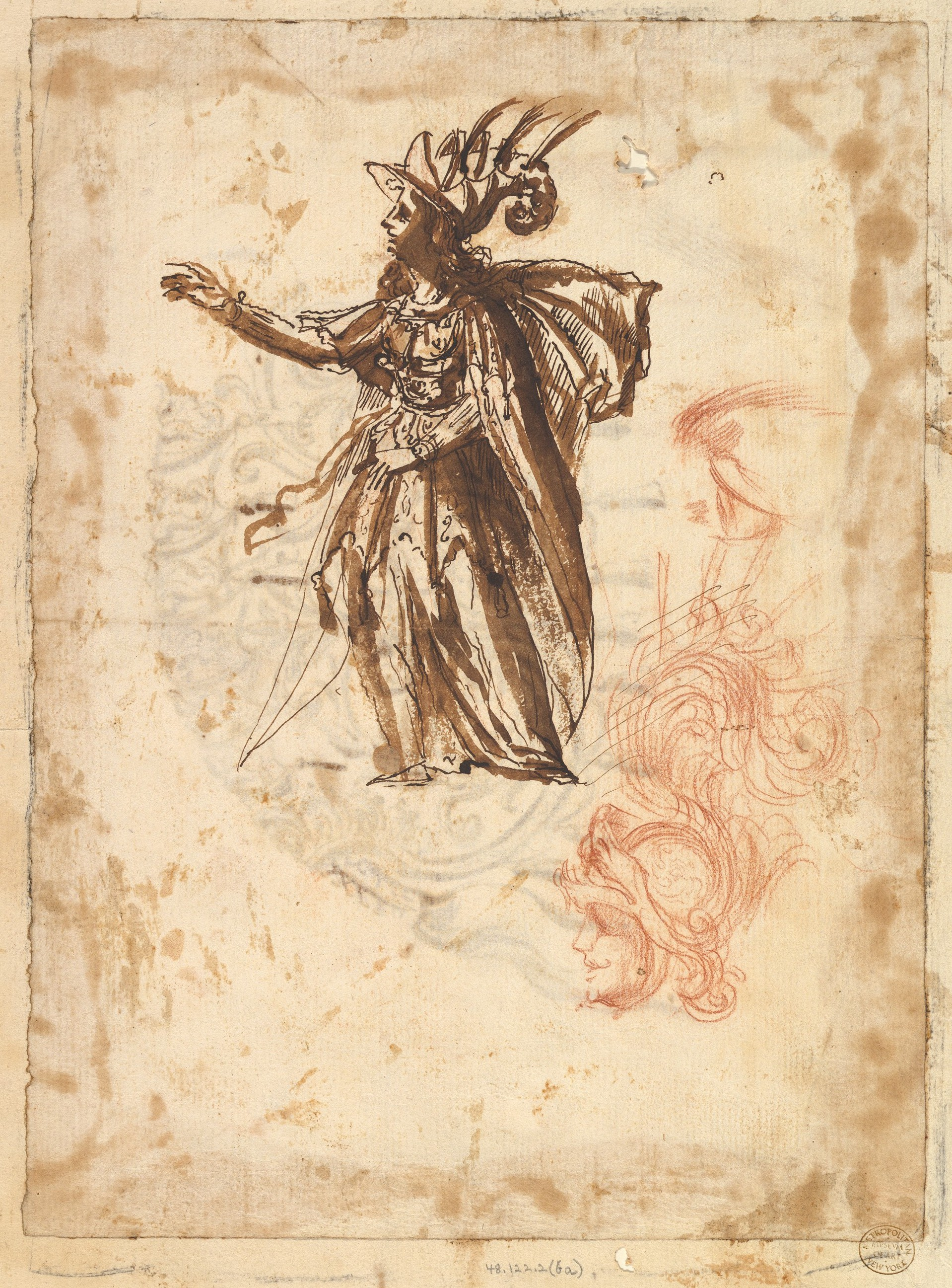 Collection Ornament & Architecture; Drawings/Ornament & Architecture